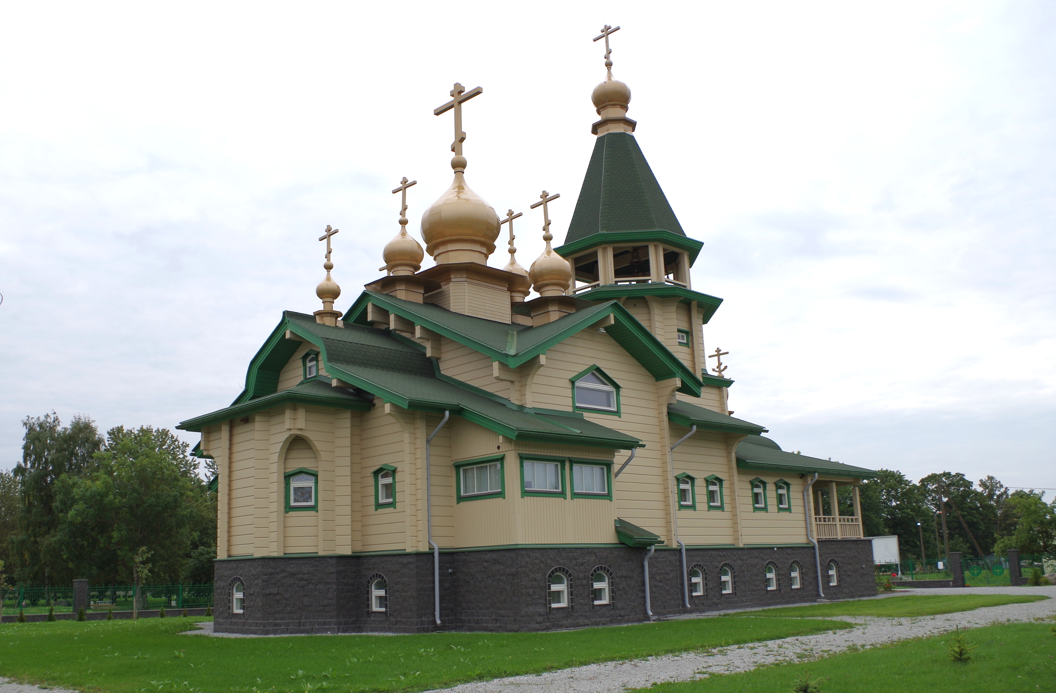 St Sergius of Radonezh Church in Paldiski, Estonia